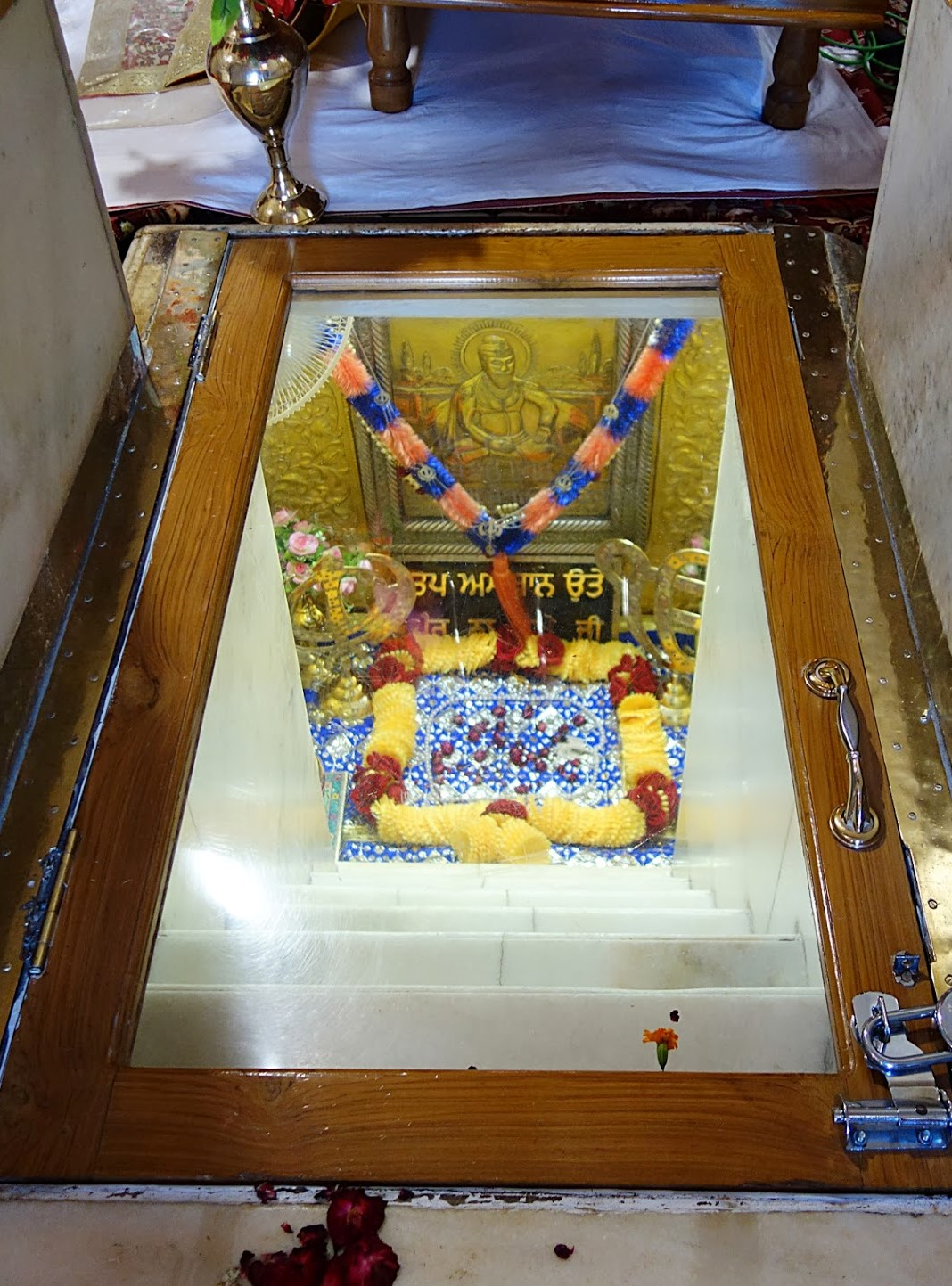 The cellar in which Guru Tegh Bahadur, the 9th Guru of the Sikhs, meditate for 26 years, 9 months & 13 days.